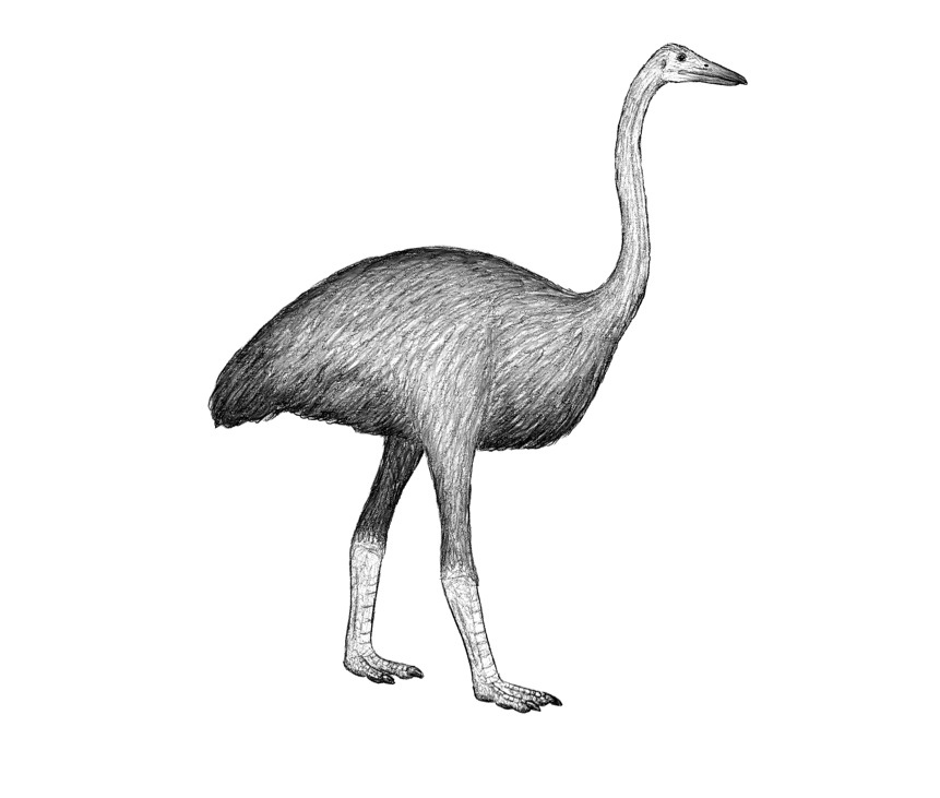 Life restoration of Mullerornis agilis, the smaller relative of the large Vorompatra, Aepyornis maximus. It was not easy to get a skeletal depiction of this largely overlooked taxon, but I managed to find one to produce a reliable restoration of that bird. It is based on a scan from a book, I don't remember the name unfortunately.